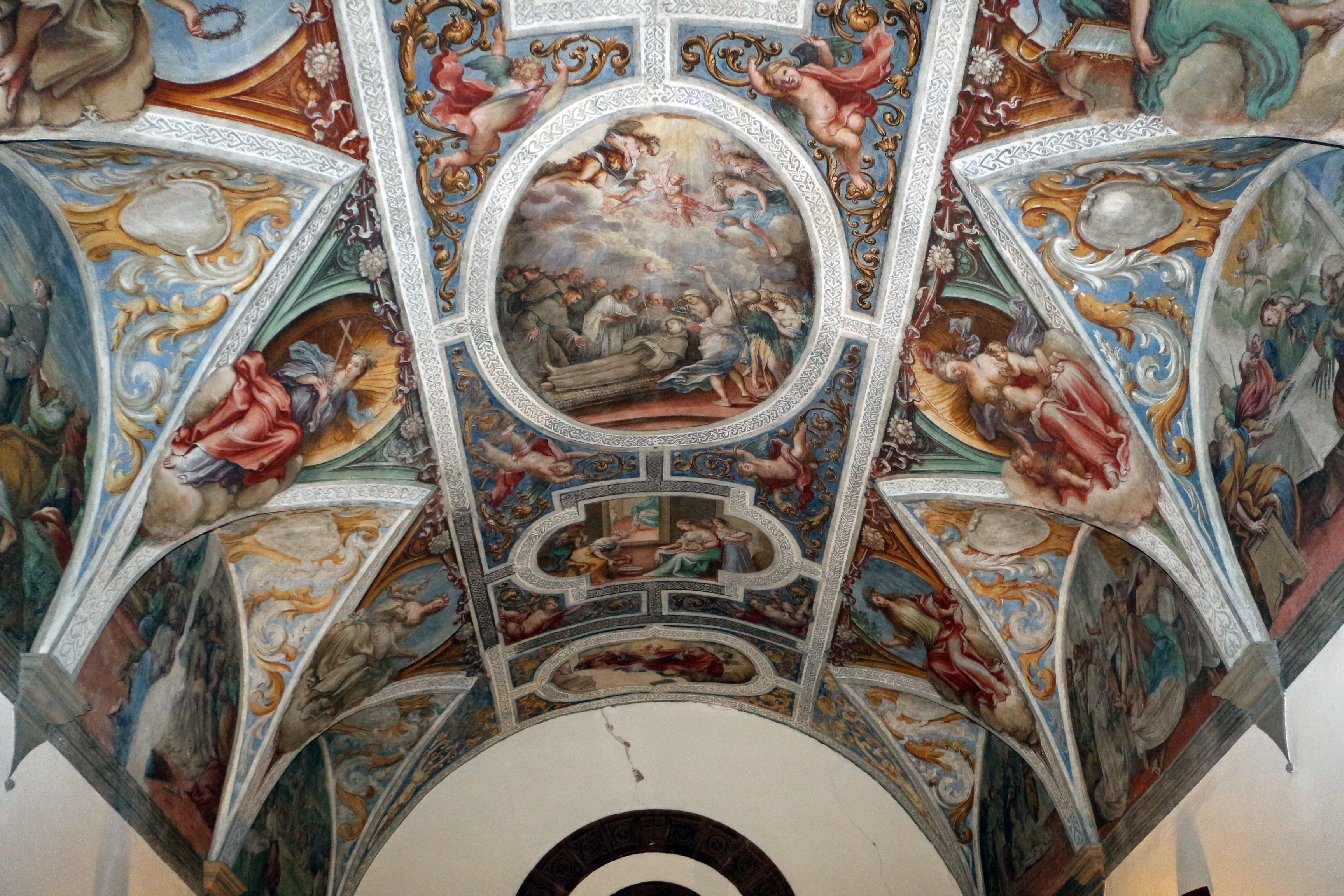 San Francesco (Grosseto)